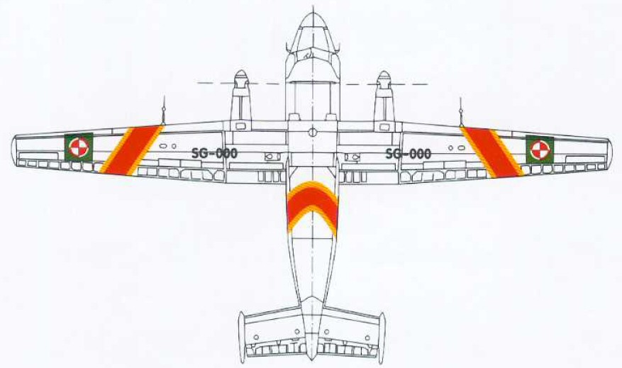 Markings od the Polish Border Guard aircraft (PZL M28 Bryza)